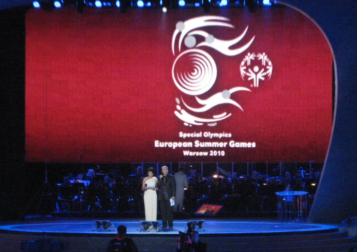 Warsaw 2010, Special Olympics, European Summer Games